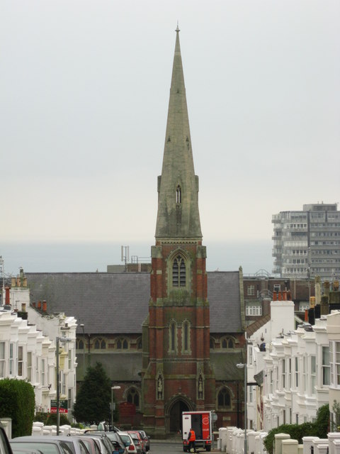 Church